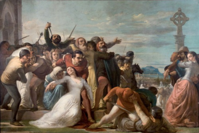 Vepres-siciliennes-31-mar-1282-painting